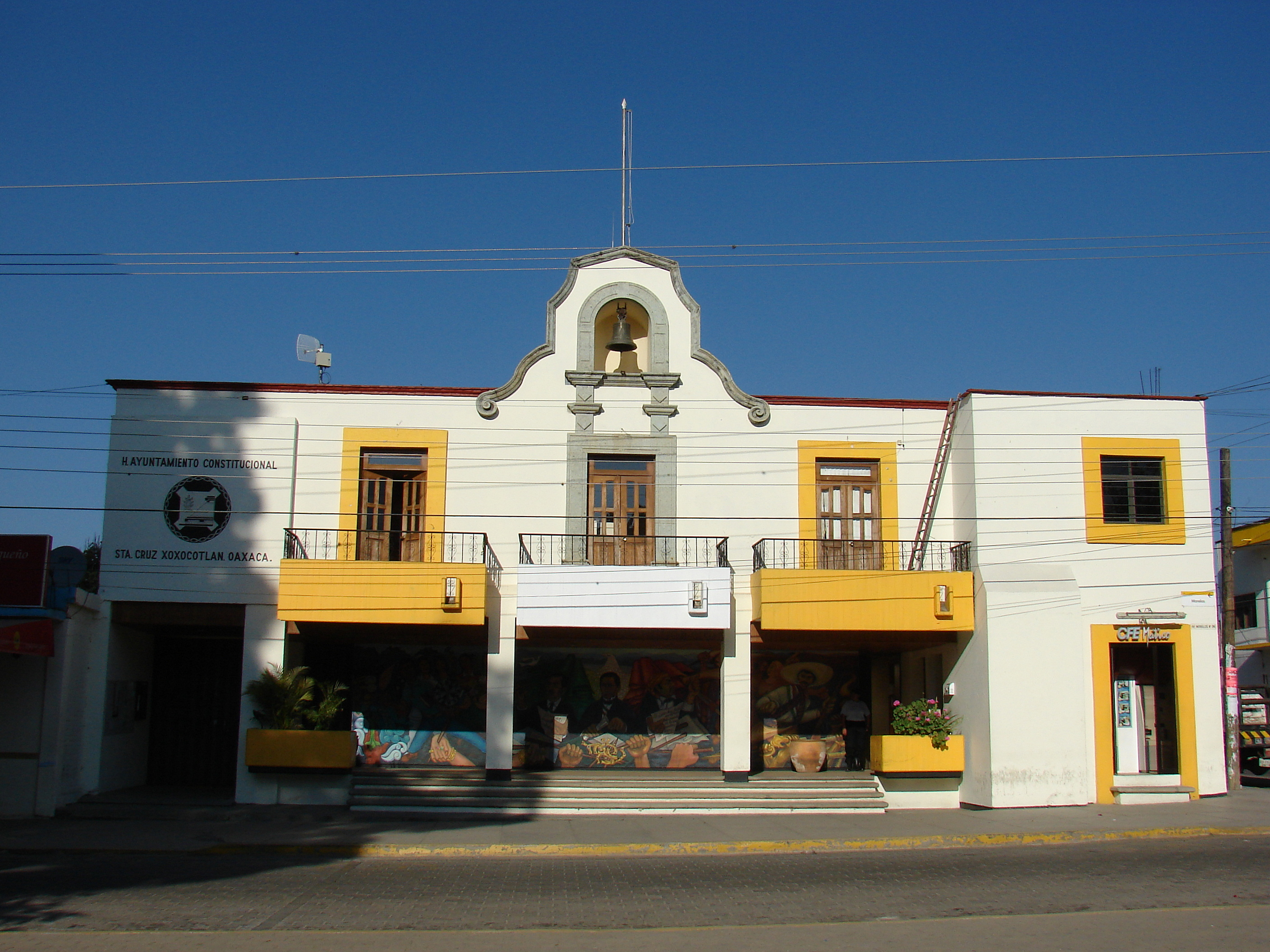 City Hall of the Municipality of Santa Cruz Xoxocotlán, Oaxaca, Mexico.